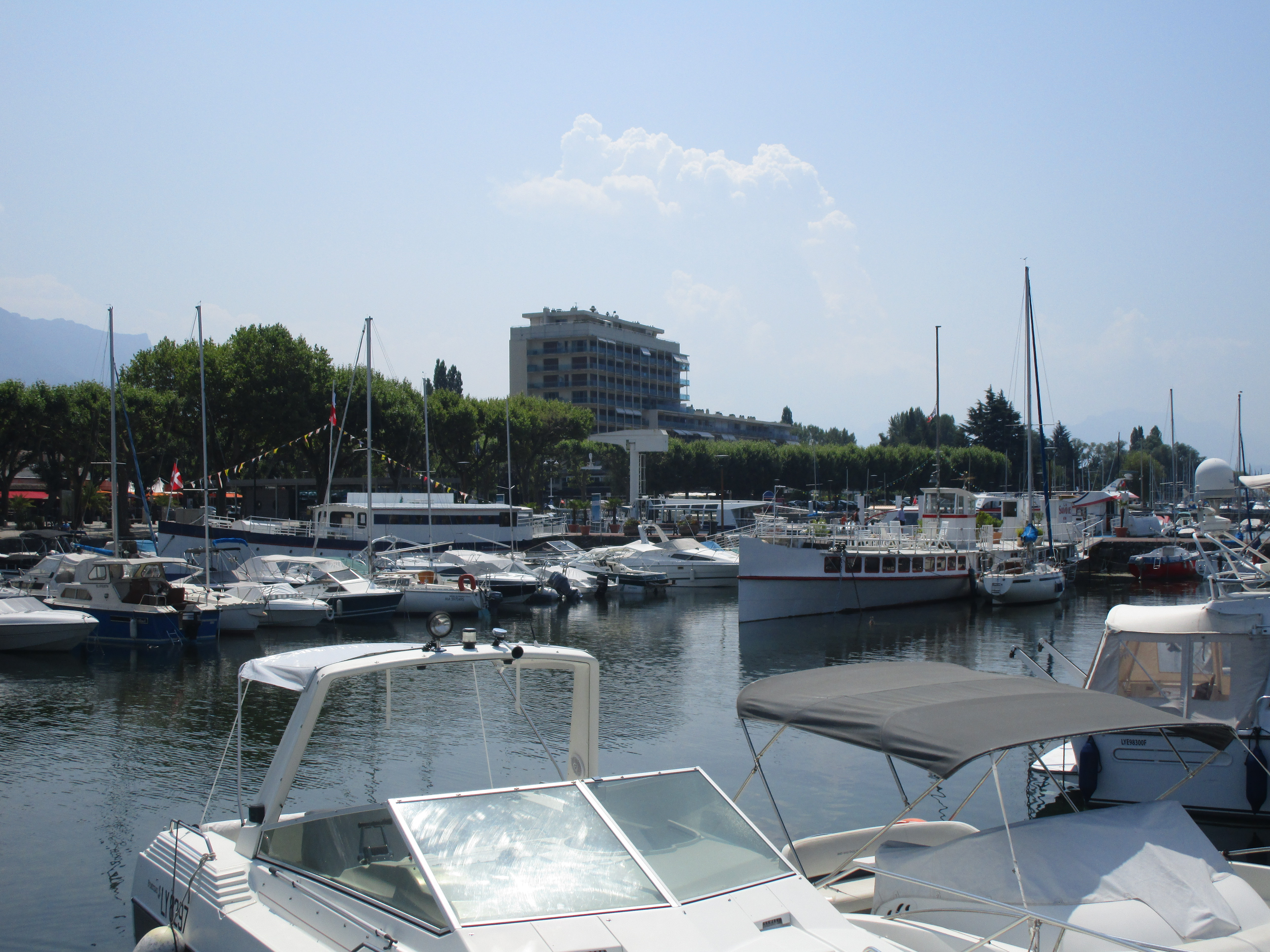 The ships La Savoie and L’Almée moored at Aix-les-Bains on July 17, 2015.